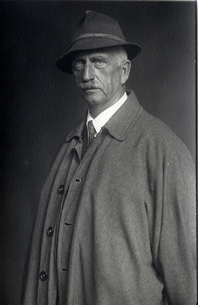 Heinrich, Prince of Tuscany (1878-1969)